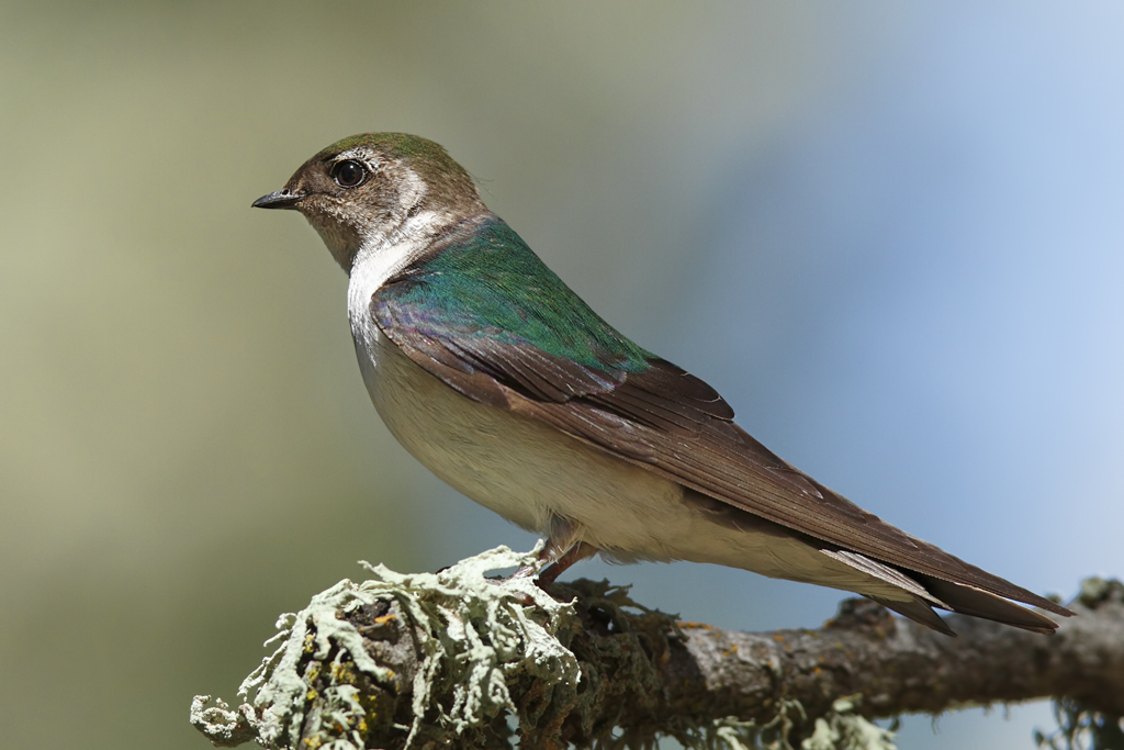 A female Violet-green Swallow in San Luis Obispo, California, USA.